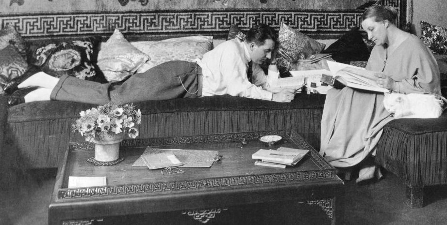 Fritz Lang and his wife Thea von Harbou in their Berlin apartment.